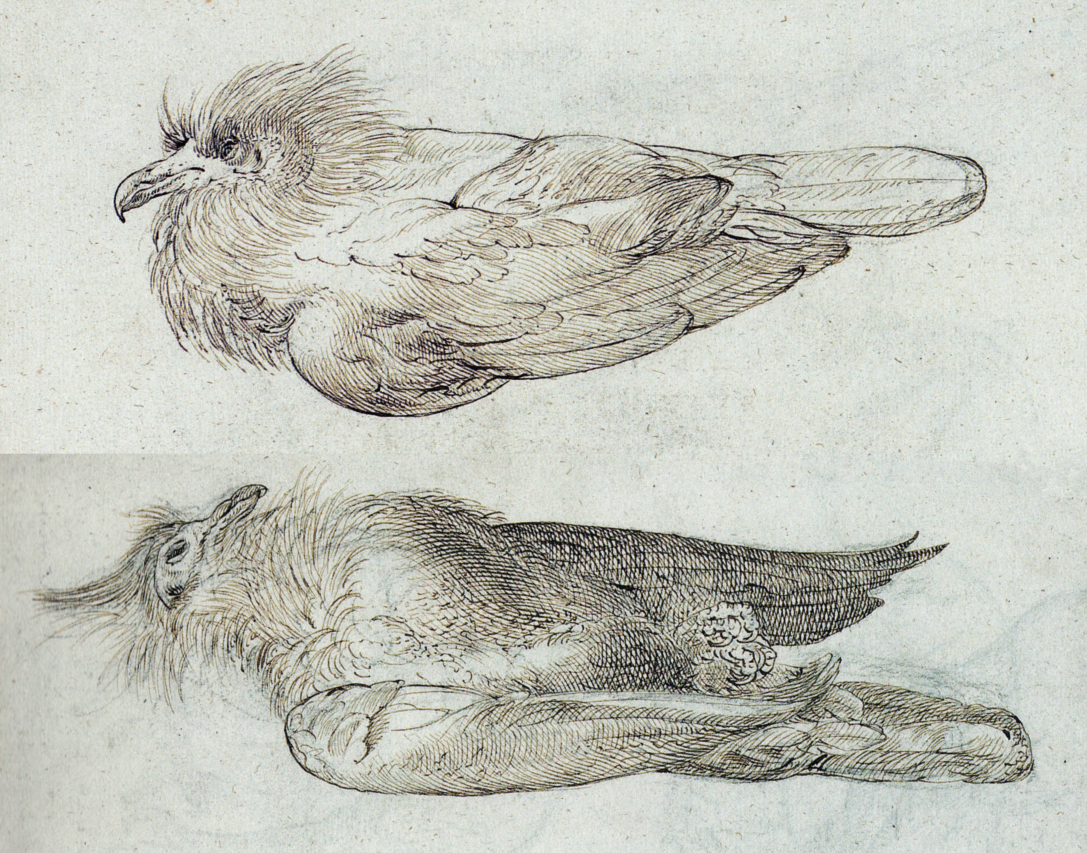 Two anonymous sketches (1601-1603) from the journal of the Dutch ship Gelderland under the command of Wolphart Harmanzoon.